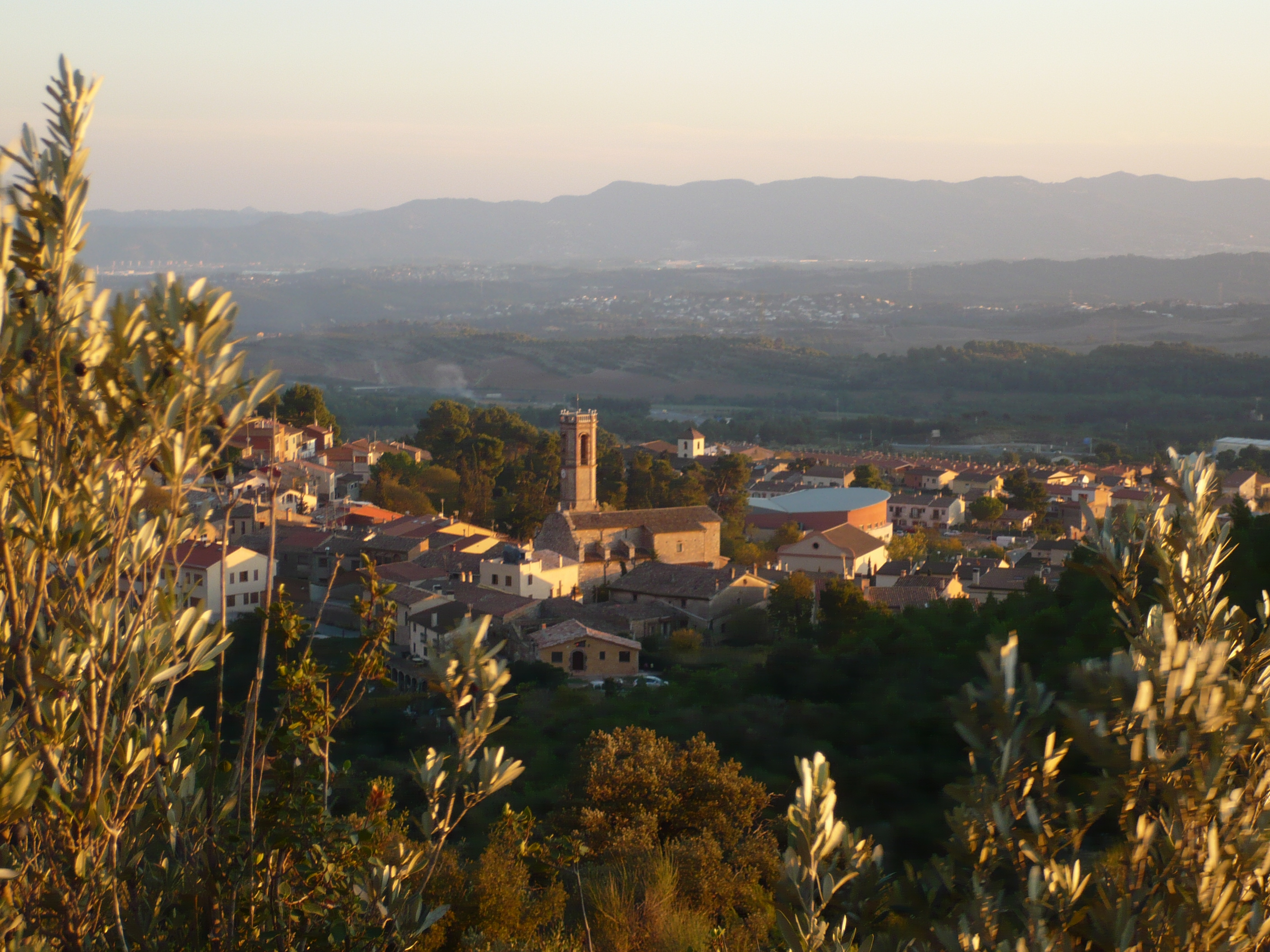 Collbató view